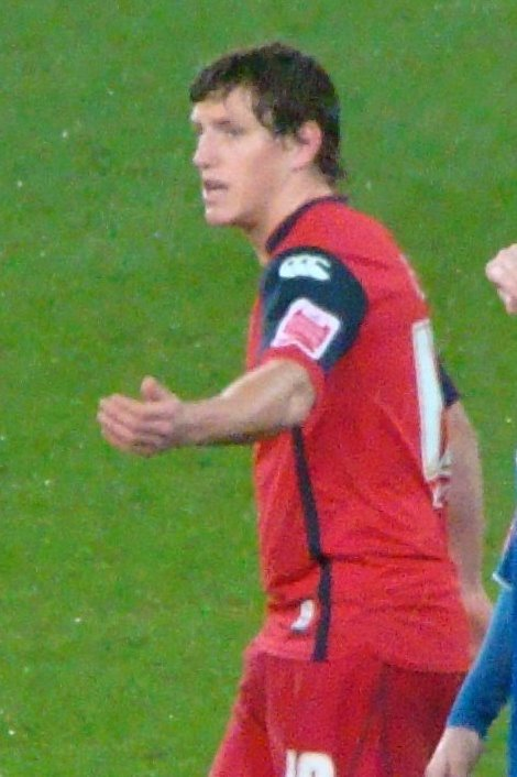 05/12/09 Cardiff V Preston, Cardiff City Stadium, Cardiff, Wales